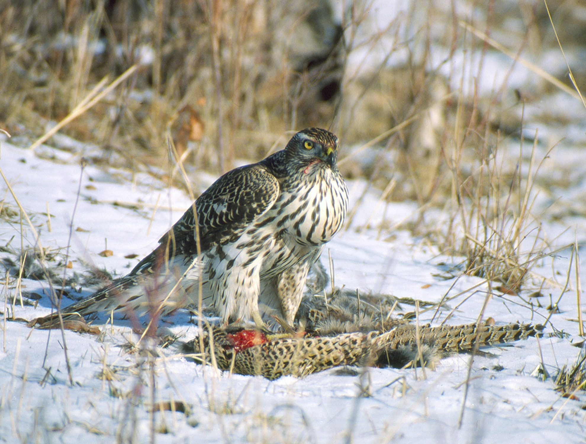 Immature Cooper's hawk eating a pheasant, January 1984.